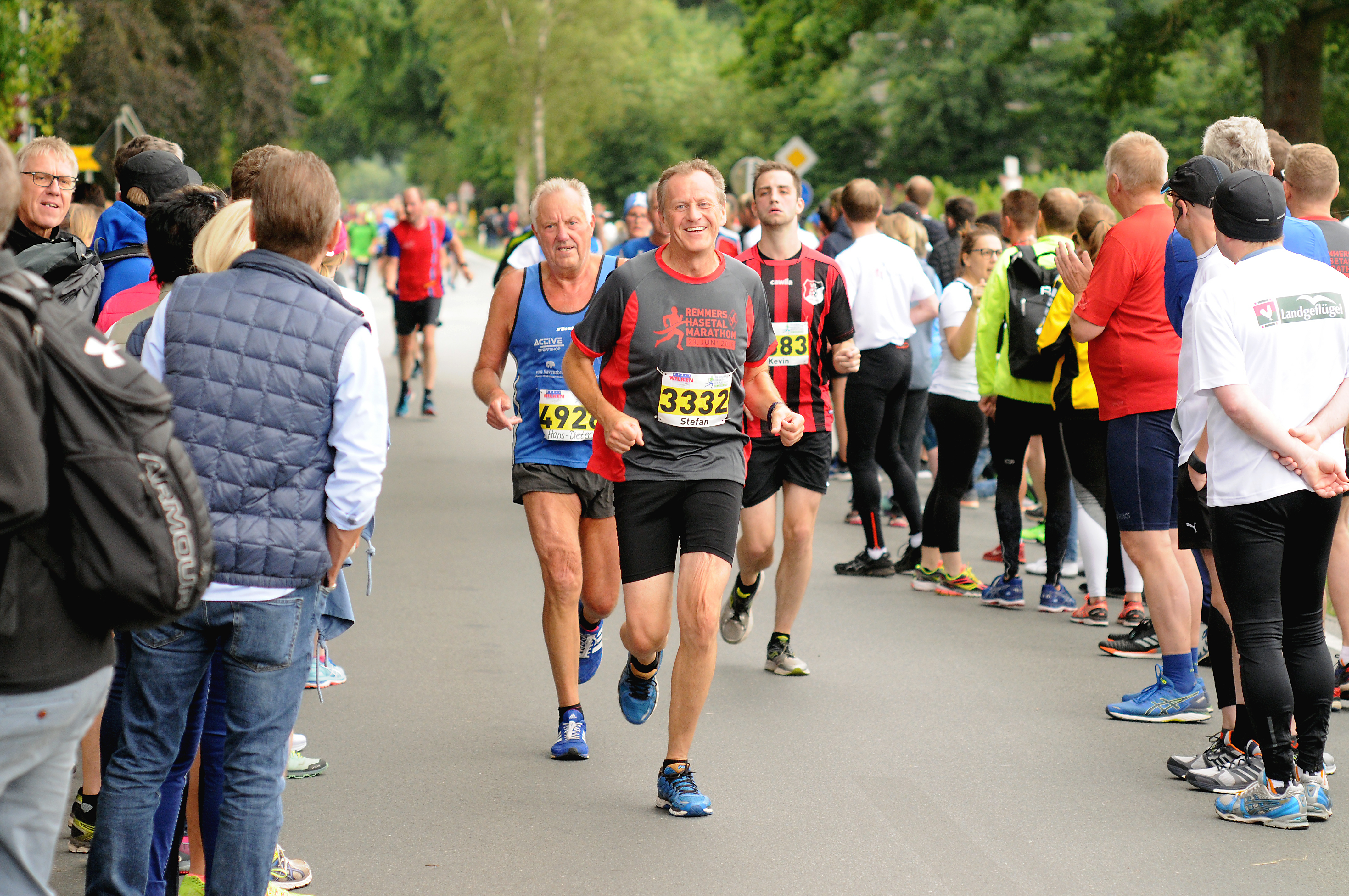 Picture shows the 16th Remmers-Hasetal-Marathon